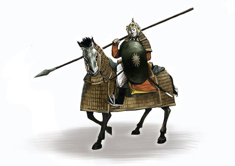 Reconstruction of a Dai Viet Heavy cavalry based on helmet and shield dating back from the Trần Dynasty.